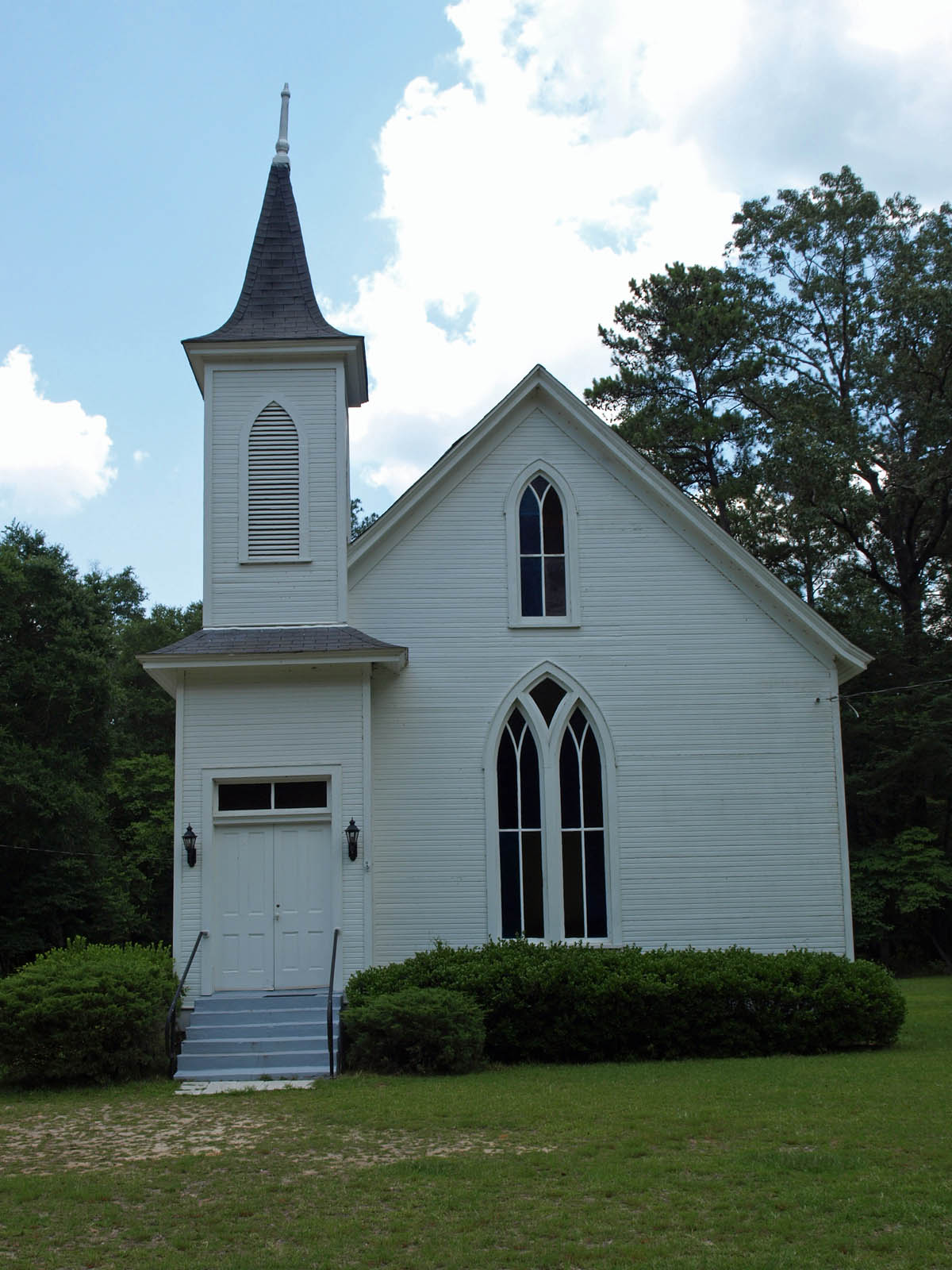 Latham United Methodist Church in Latham, Alabama, listed on the National Register of Historic Places